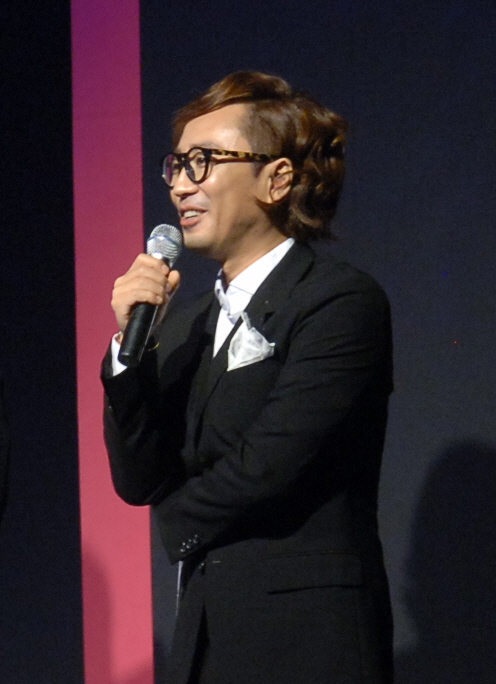 Jung Jae-hyung at the LG Optimus LTE Showcase evant